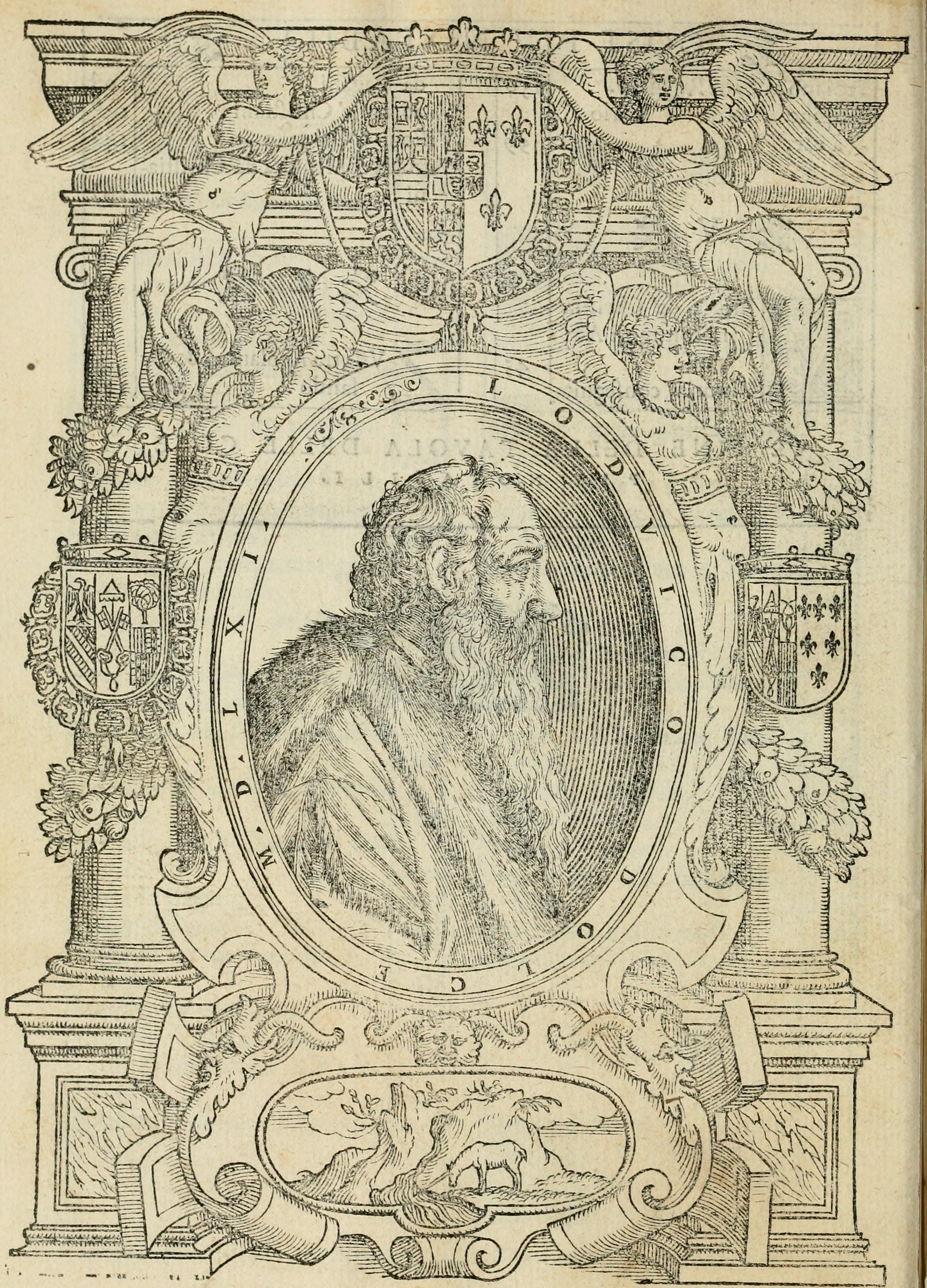 Title: Le prime imprese del conte Orlando Year: 1572 (1570s) Authors: Dolce, Lodovico, 1508-1568 Subjects: Roland (Legendary character) Publisher: In Vinegia : Appresso Gabriel Giolito de' Ferrari Text Appearing Before Image: ' Text Appearing After Image: '